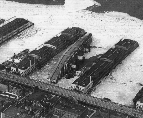 During another pass over New York harbor, a VJ-4 photographer took this view of Lafayette (originally SS Normandie) resting on her beam ends, 22 February 1942. Note ice in the Hudson, and French merchantmen Ile de Re and Mont Everest moored to the opposite side of Pier 88.